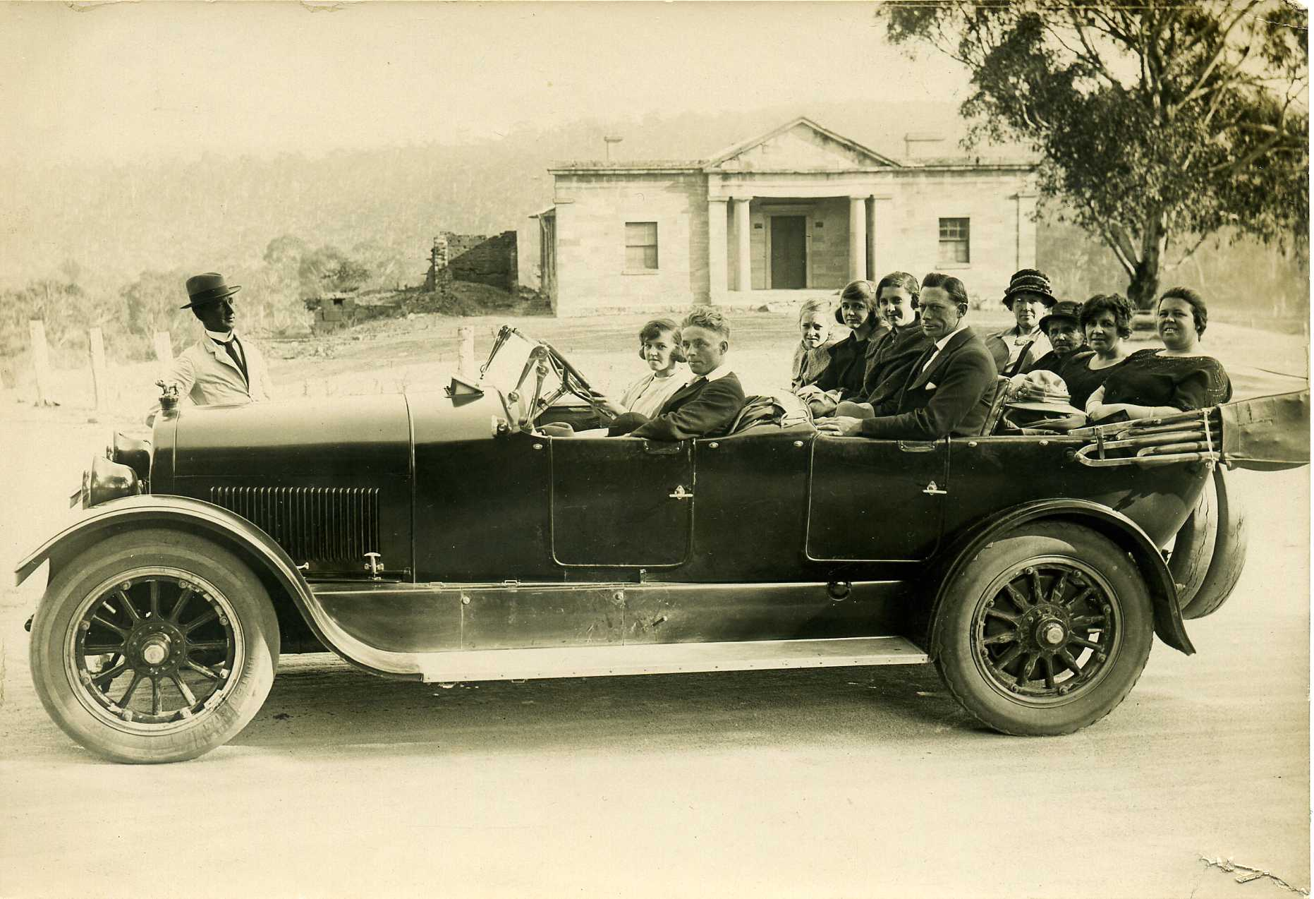 1922 Cadillac PhaetonHartley Court House, Jenolan Caves, Tour Souvenir 1922